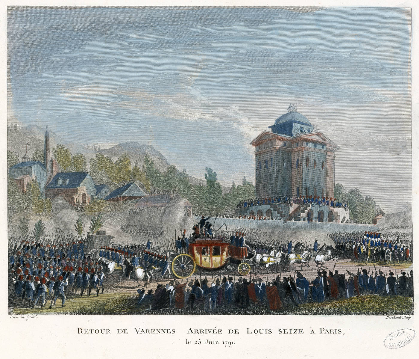 The tall building is the Barrière du Roule, part of the Wall of the Farmers-General, and designed by the architect Claude Nicolas Ledoux.